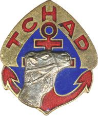 Regimental badge of the Régiment de marche du Tchad.